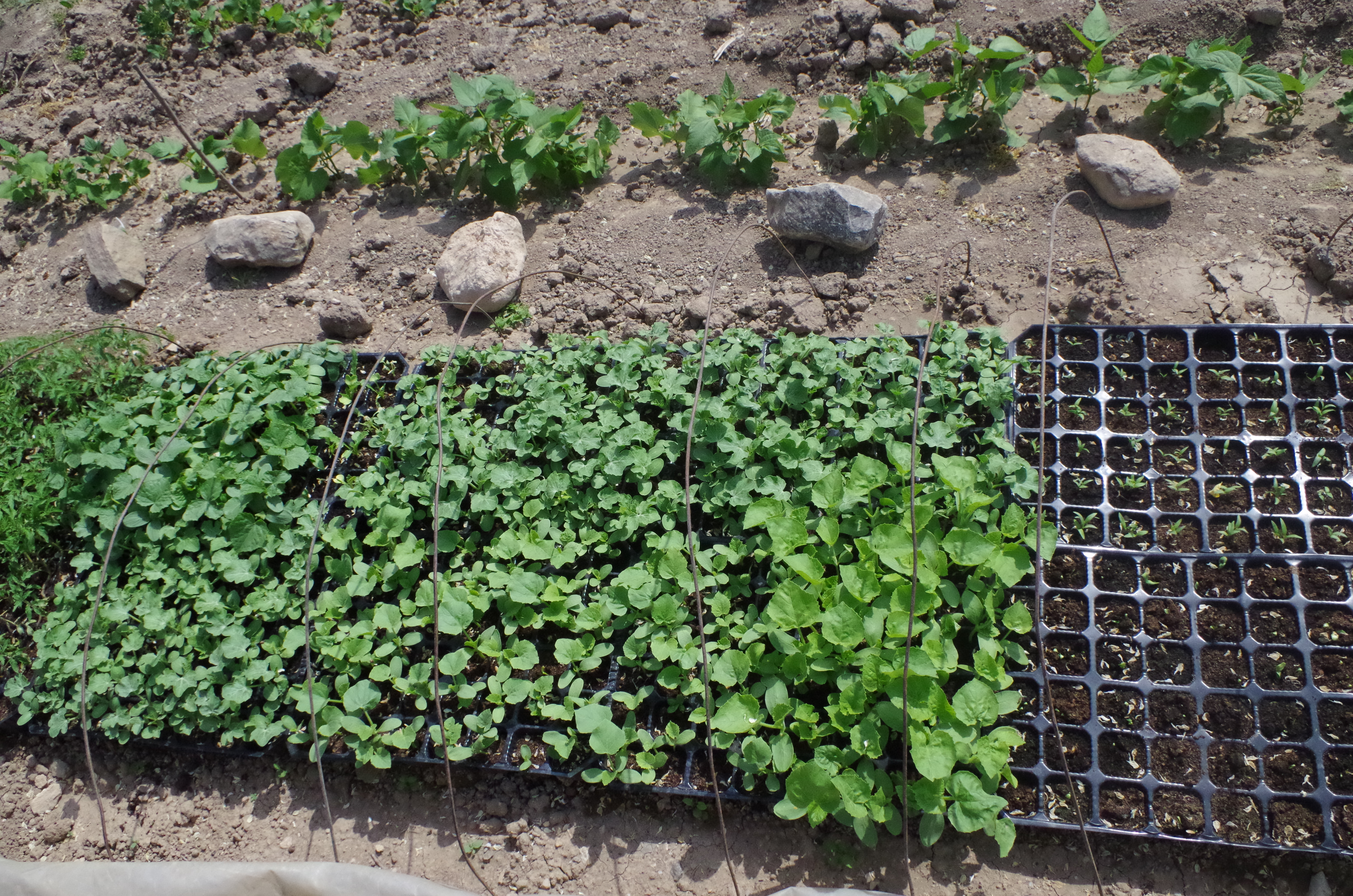 Seedlings in Sirkovo, Macedonia